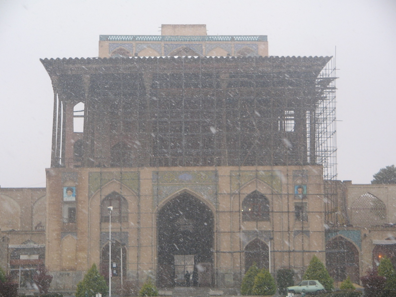 Ālī Qāpū Palace, Isfahan, Iran, on a snowy day.